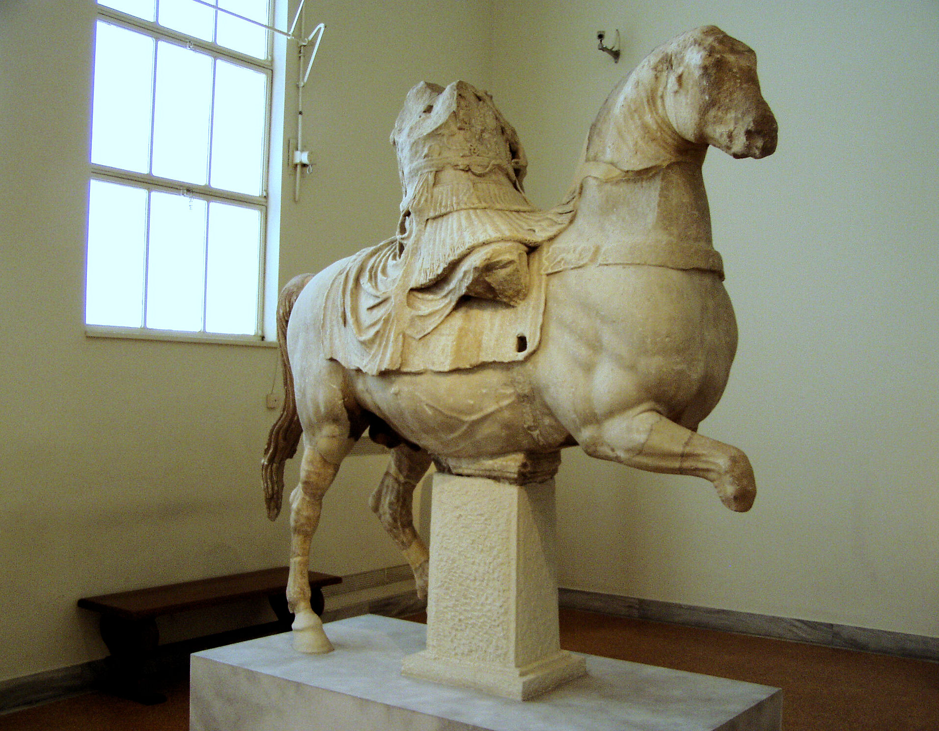 Statue of a equestrian officer wearing a corselet at the NAMA, Nr 2715.